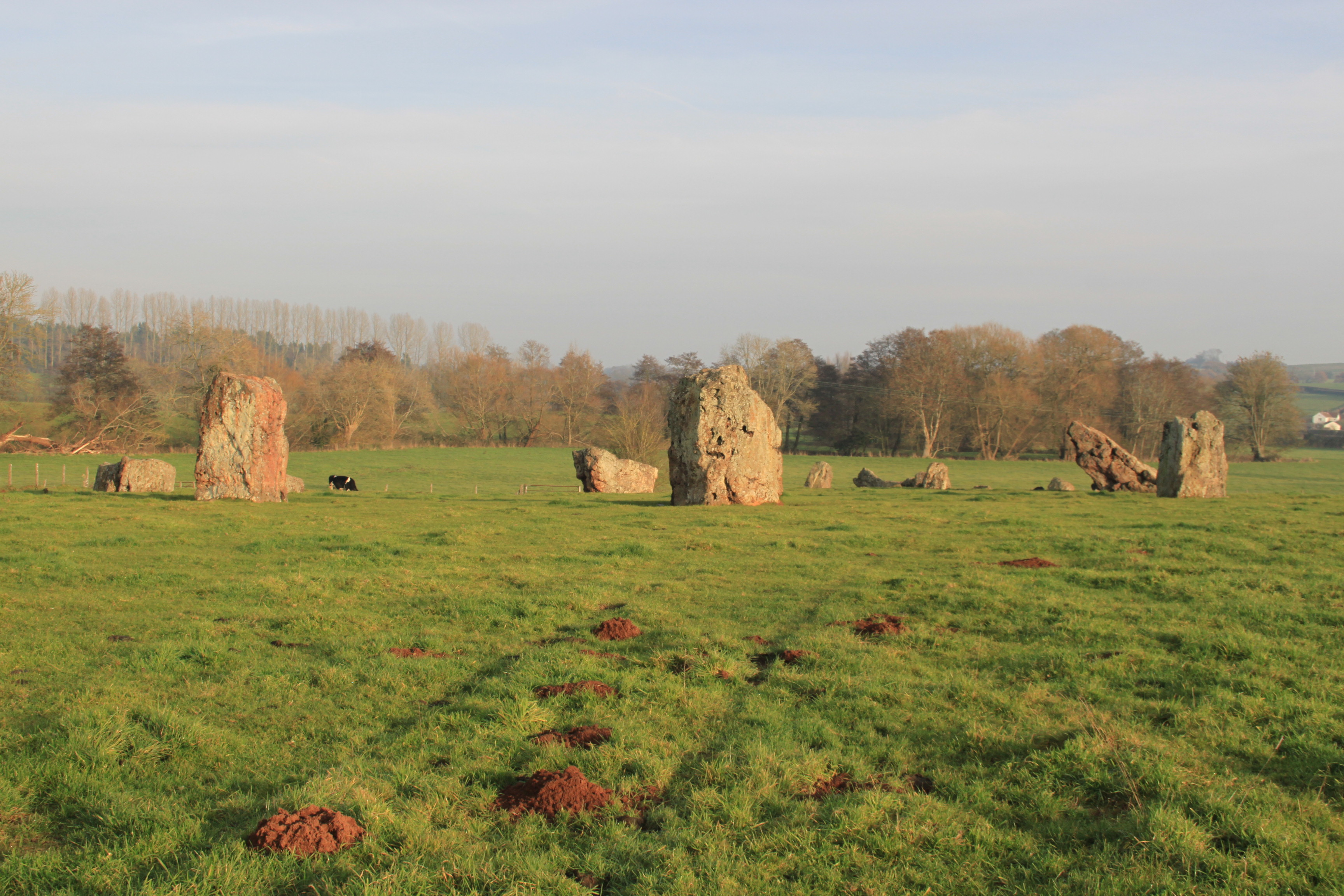 The stone circles at Stanton Drew, Somerset, England